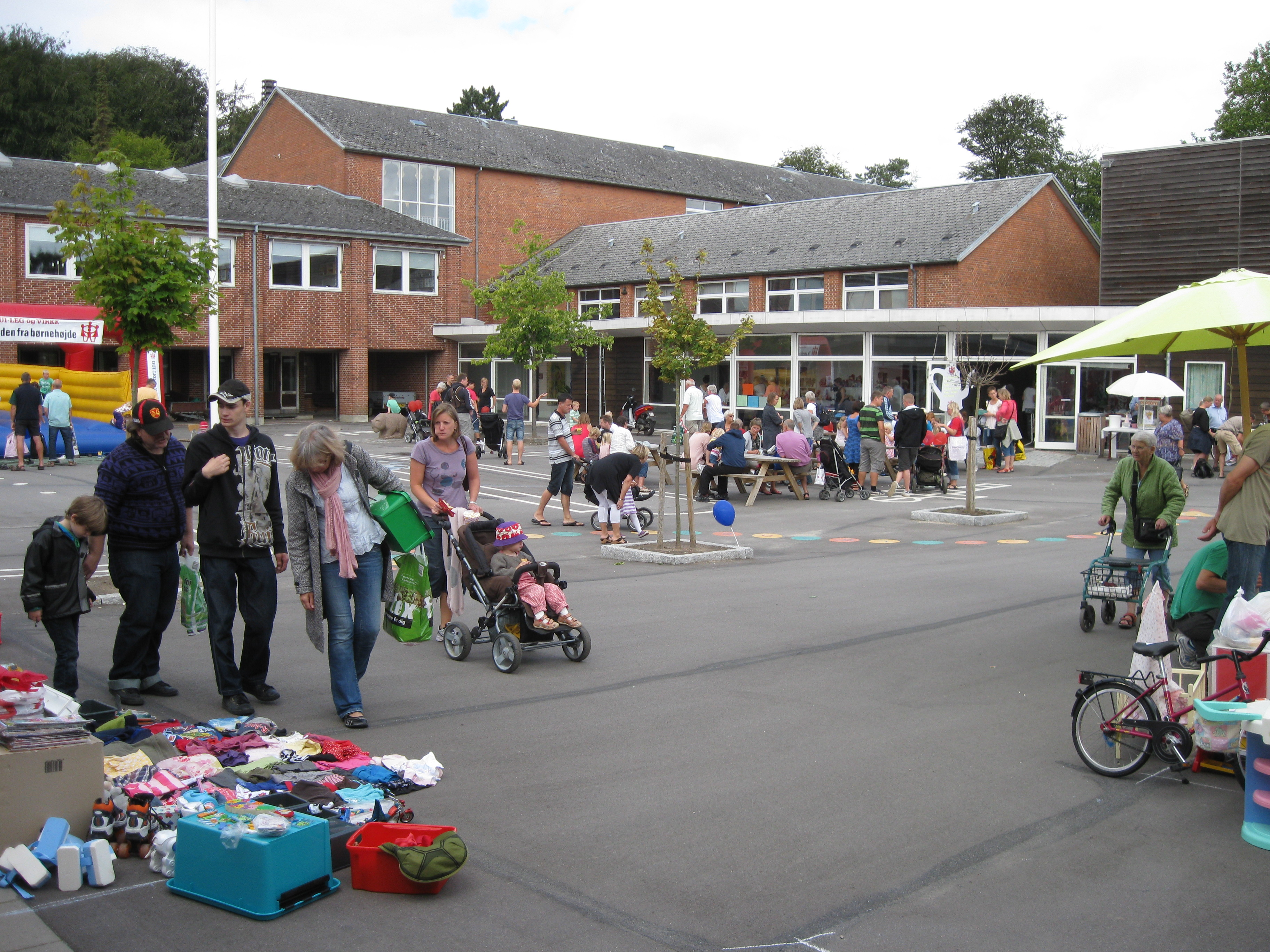 The school Skovbakkeskolen in Odder, Denmark